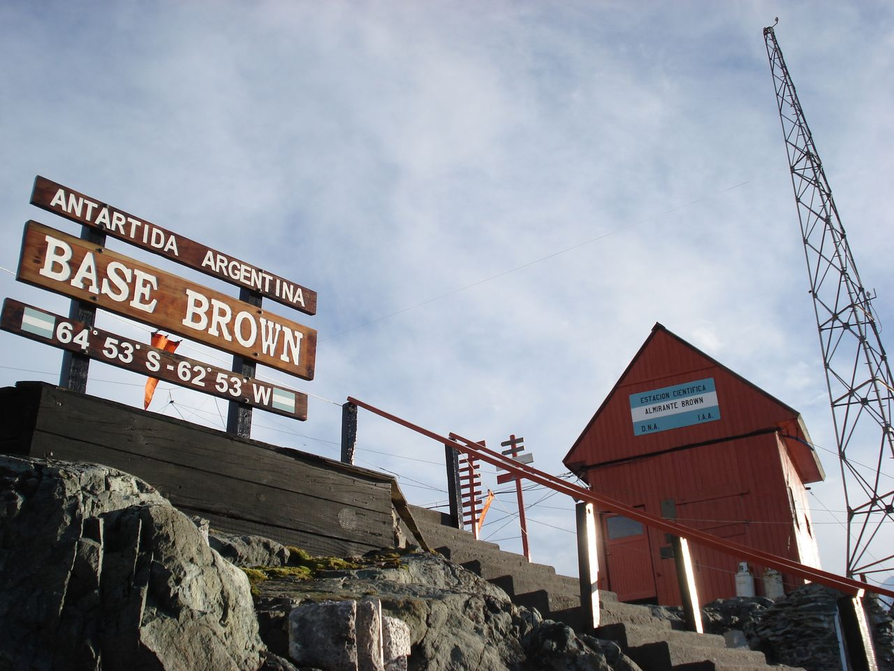 Argentinian Brown Station in Paradise Harbour in Antarctica.